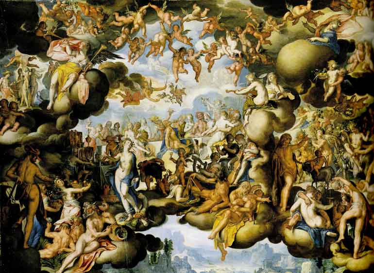 Wedding of Peleus and Thetis. Adapted from an engraving by Hendrik Goltzius.